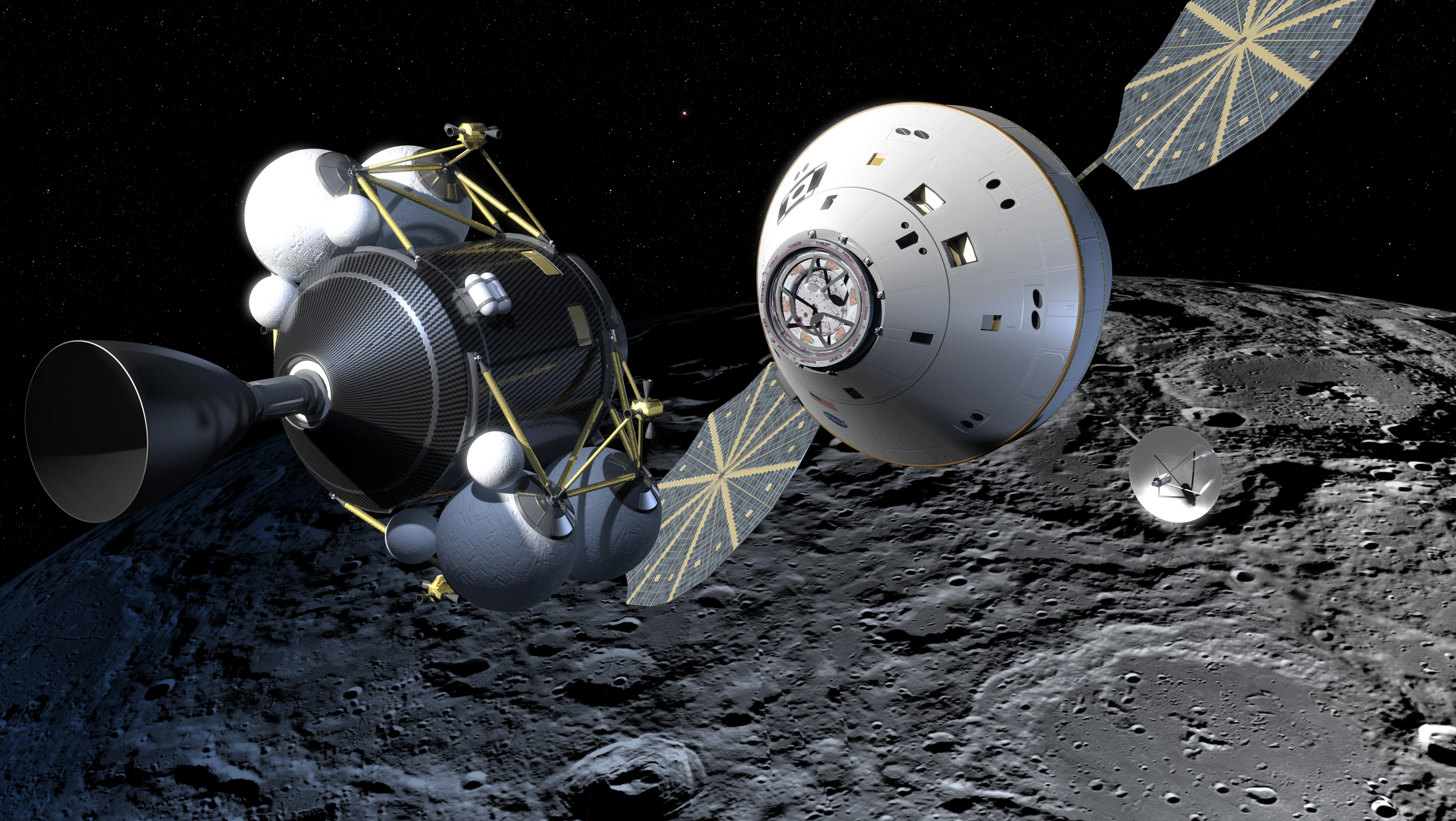 JSC2007-E-113274 - This is a NASA artist’s rendering of the Altair lunar lander’s ascent stage docking with the Orion crew exploration vehicle after a mission to the lunar surface.